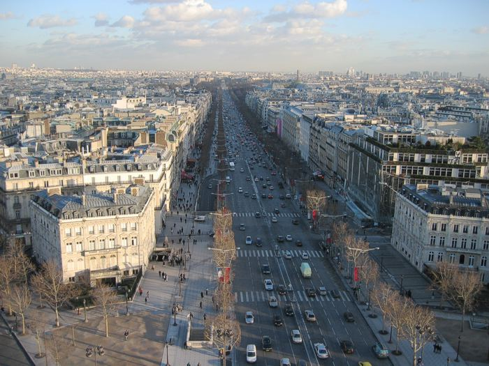 Looking east along the Champs Elysees towards Place de la Concorde from the Arc de Triomphe. Photograph taken by Michael Reeve, 29 January 2004.